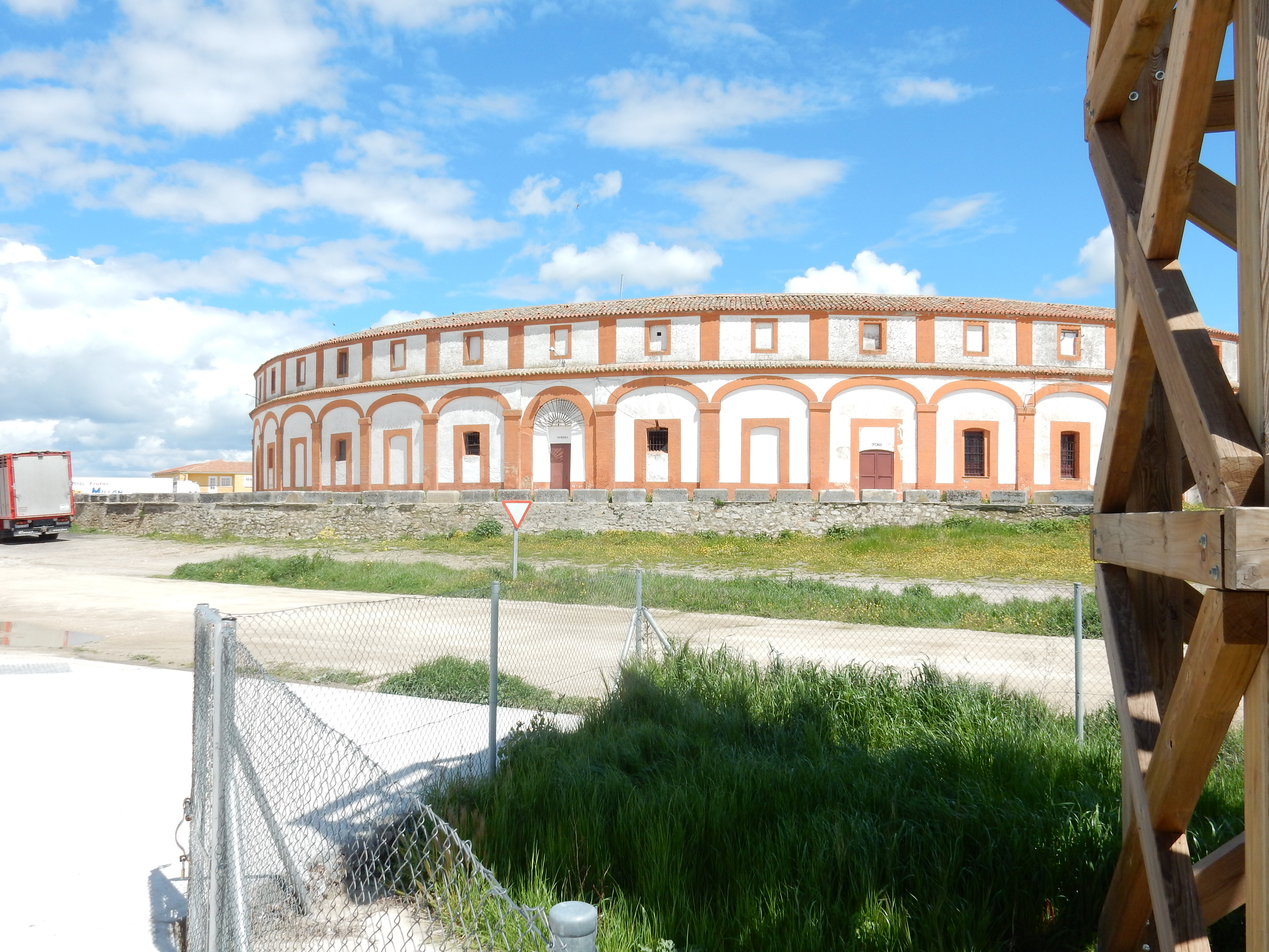 Exterior of bull-ring